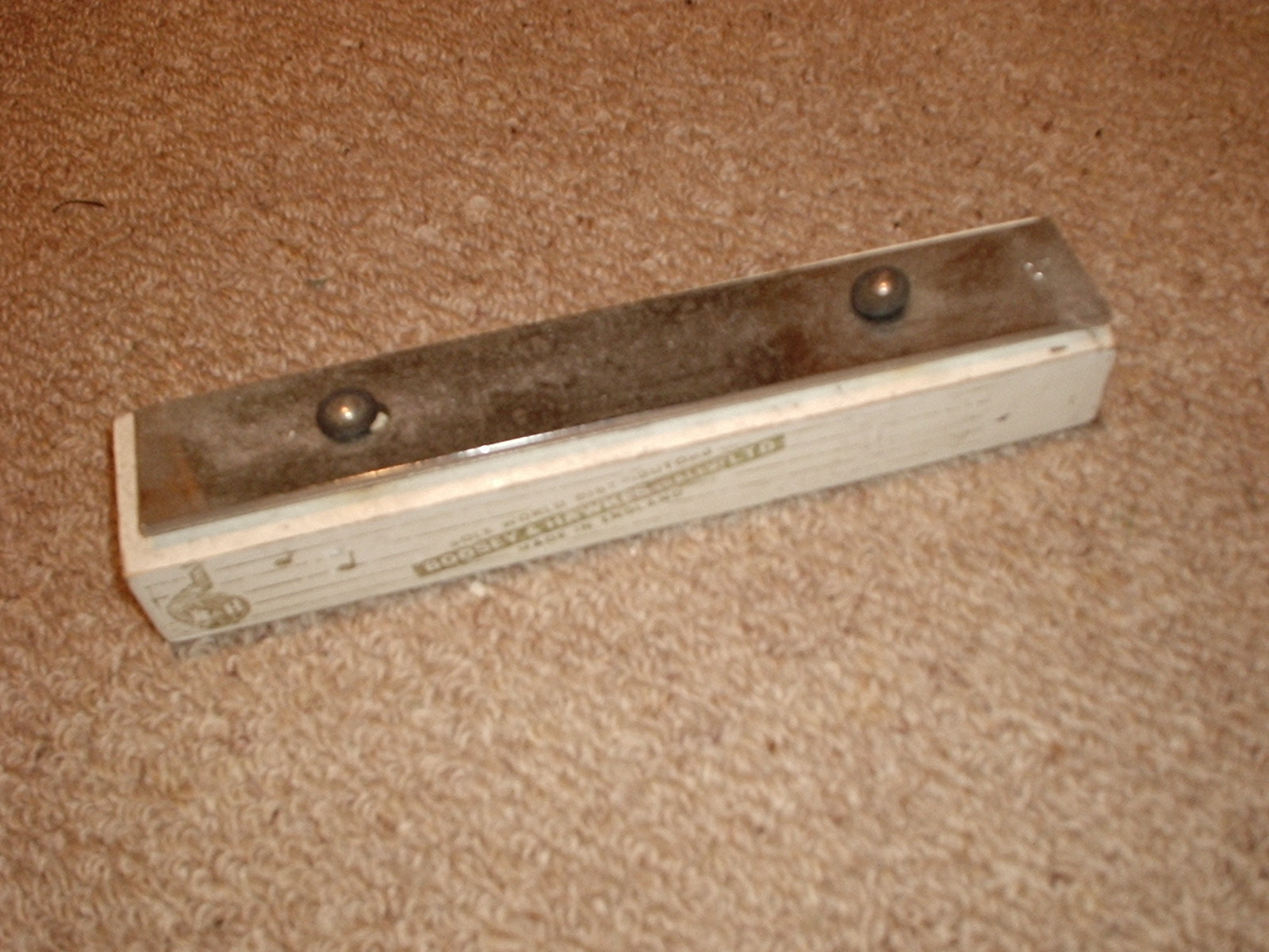 A bar chime in G, distributed in Australia by Boosey & Hawkes